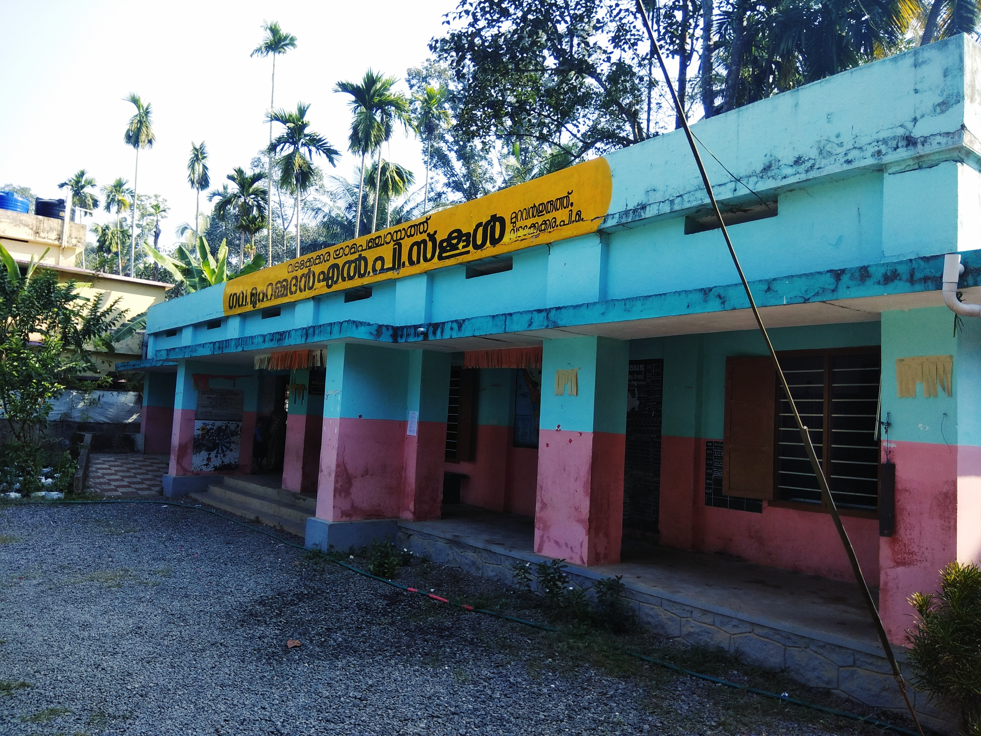 ഗവ. മുഹമ്മദന്‍ എല്‍ പി സ്കൂളിന്റെ പുതിയ കെട്ടിടം , മേല്‍ക്കൂര കോണ്‍ക്രീറ്റ് ചെയ്ത കെട്ടിടം